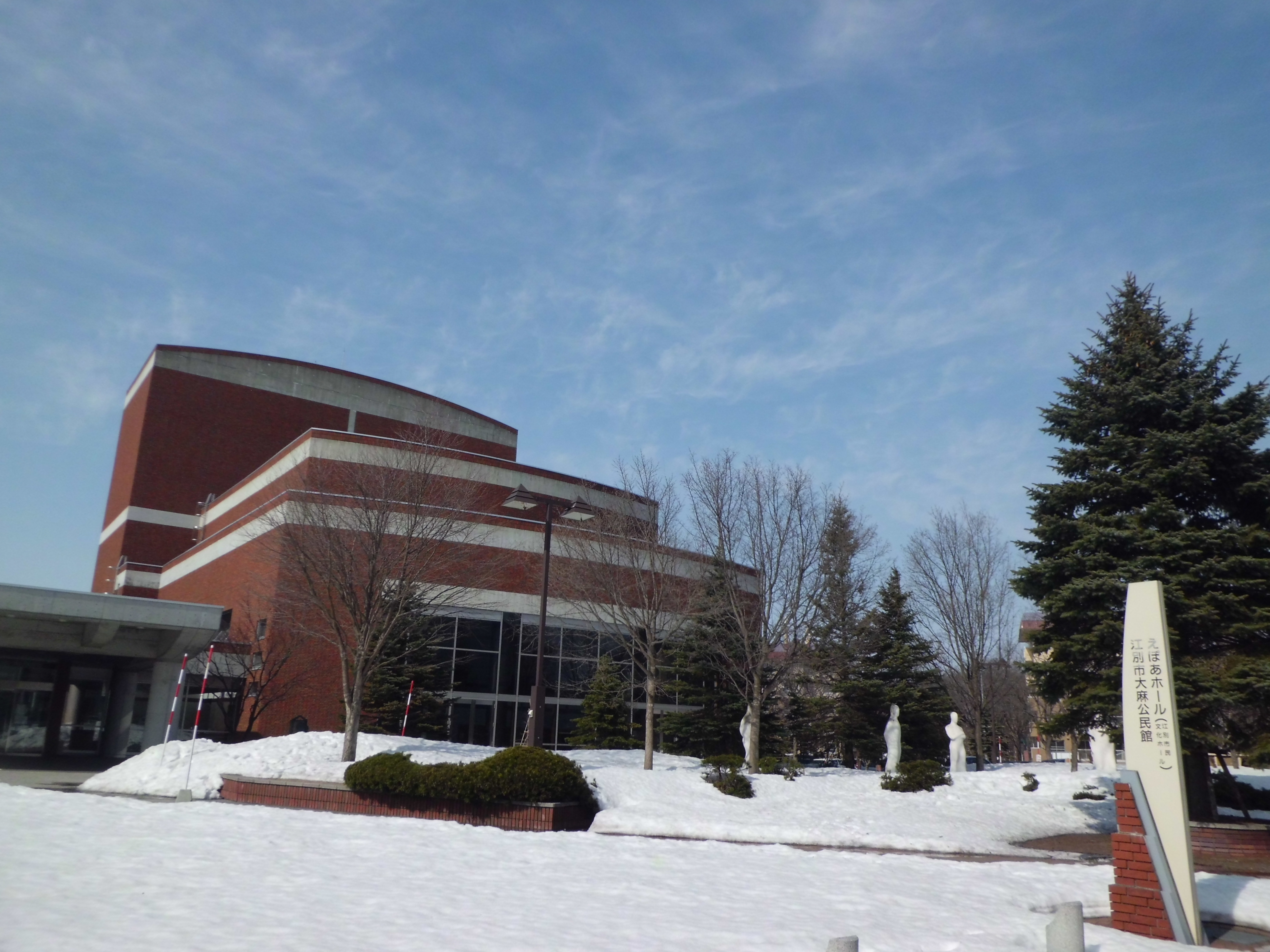 Epoa Hall (Ebetsu City Community Center)